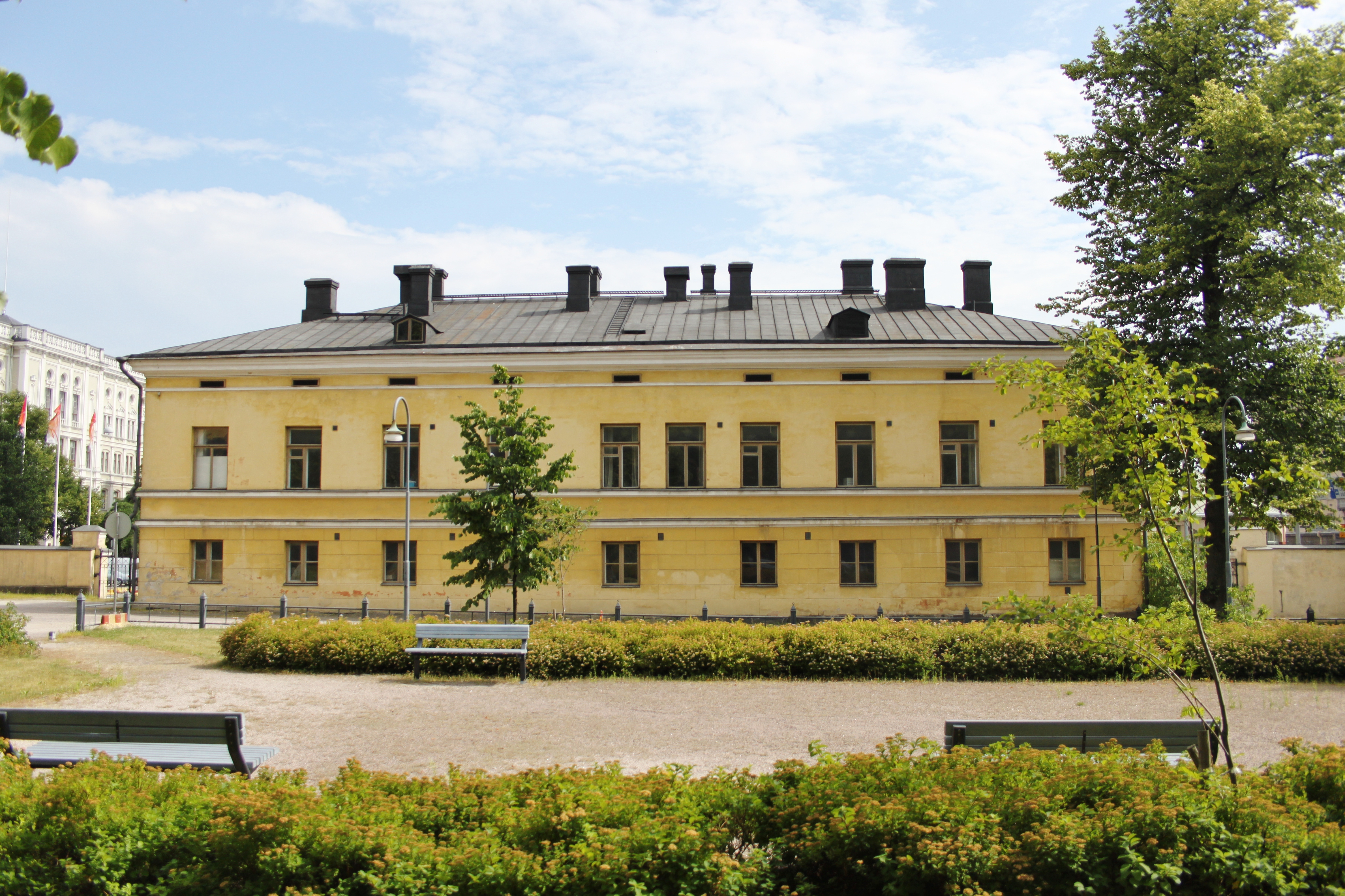 Kaartin lasaretti, Lönnrotinkatu 37, Helsinki. Architecht: Carl Ludvig Engel. Built 1827